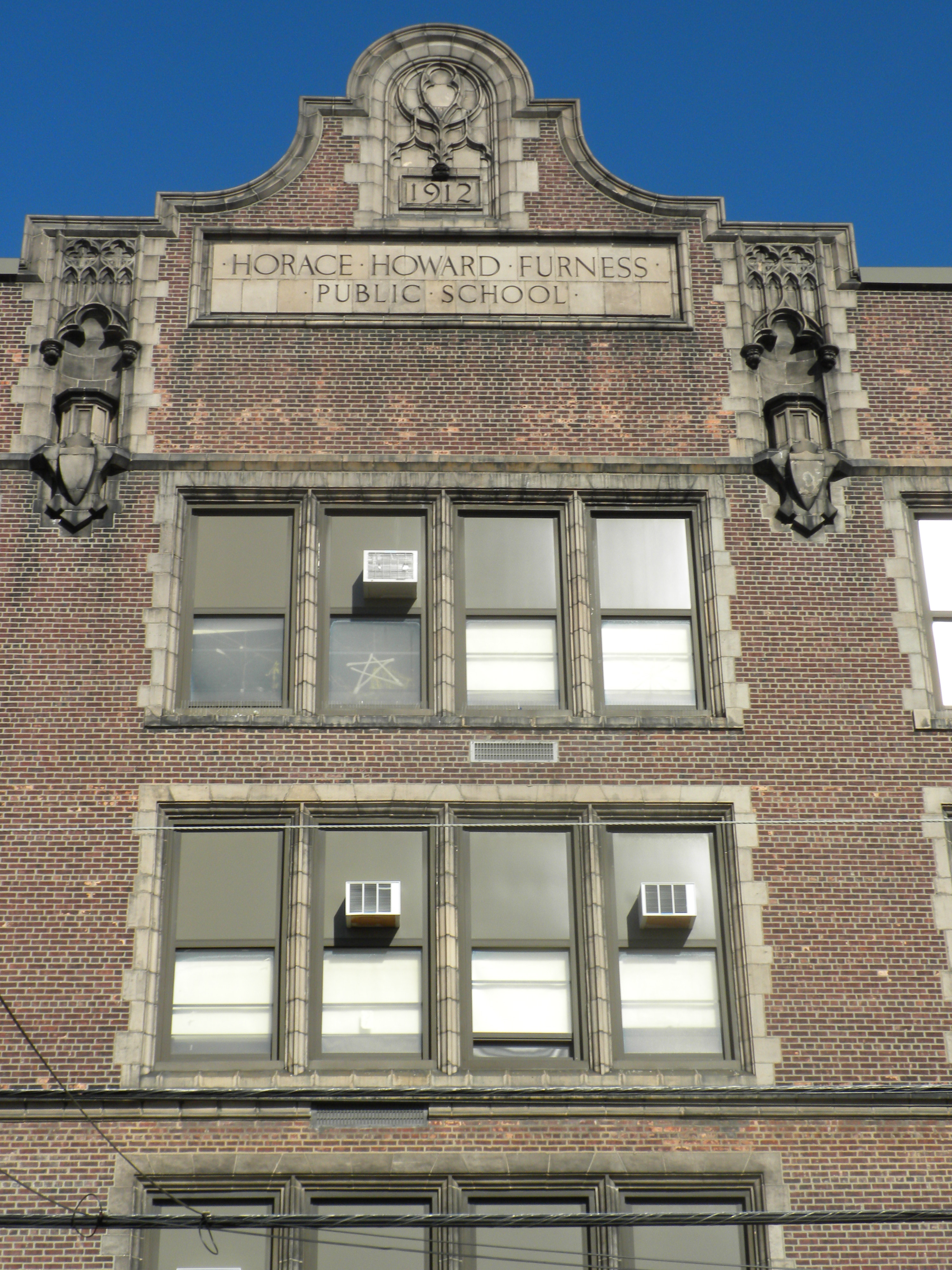 Furness High School, formerly Horace Furness Junior High School, on NRHP since December 1, 1986. At 1900 South 3rd Street in Pennsport neighborhood of Philadelphia. Frank Furness was a famous Philly architect. I believe Horace Howard Furness was his father.